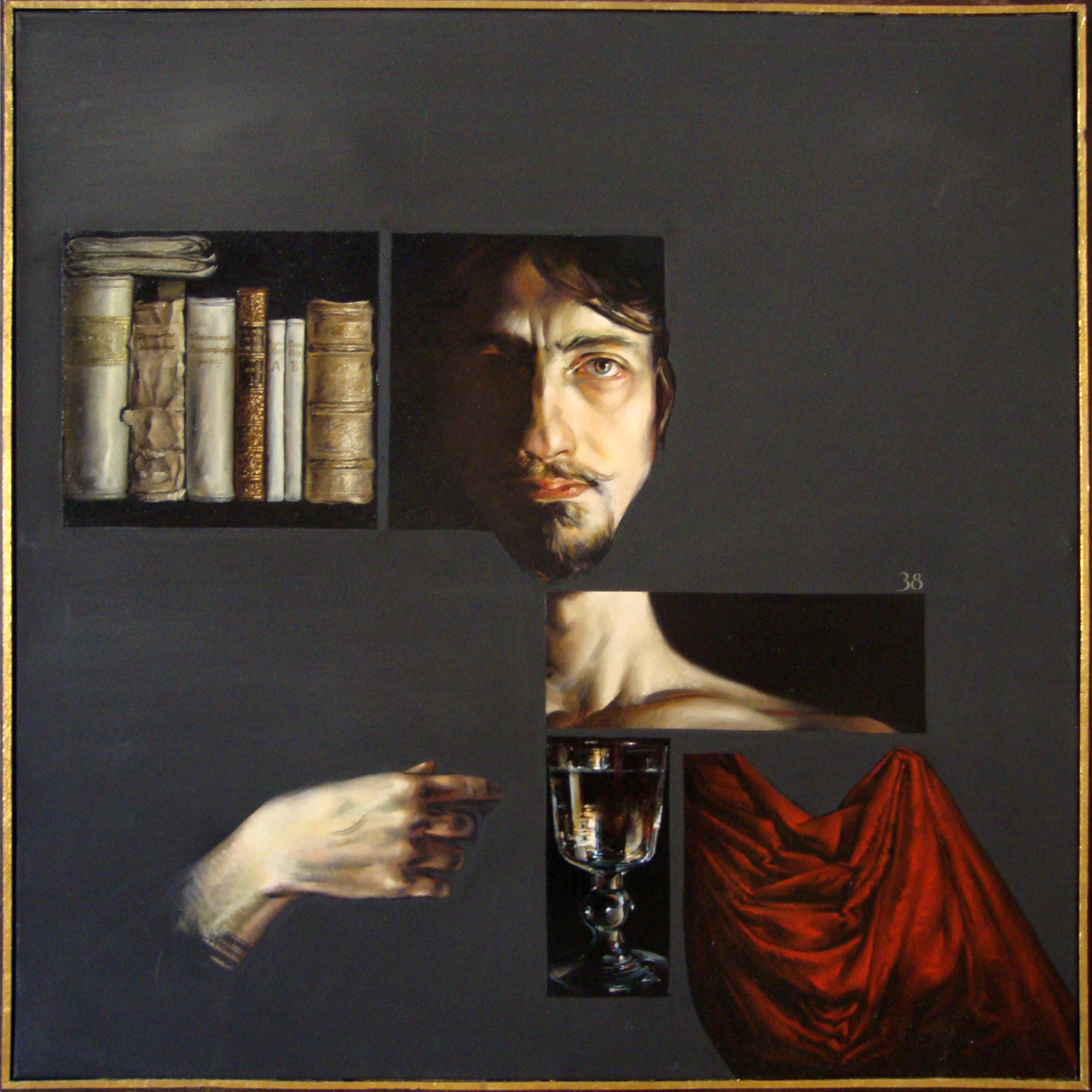 Federico M. Sardelli, Selfportrait, 2001 (oil on canvas, 80 x 80)